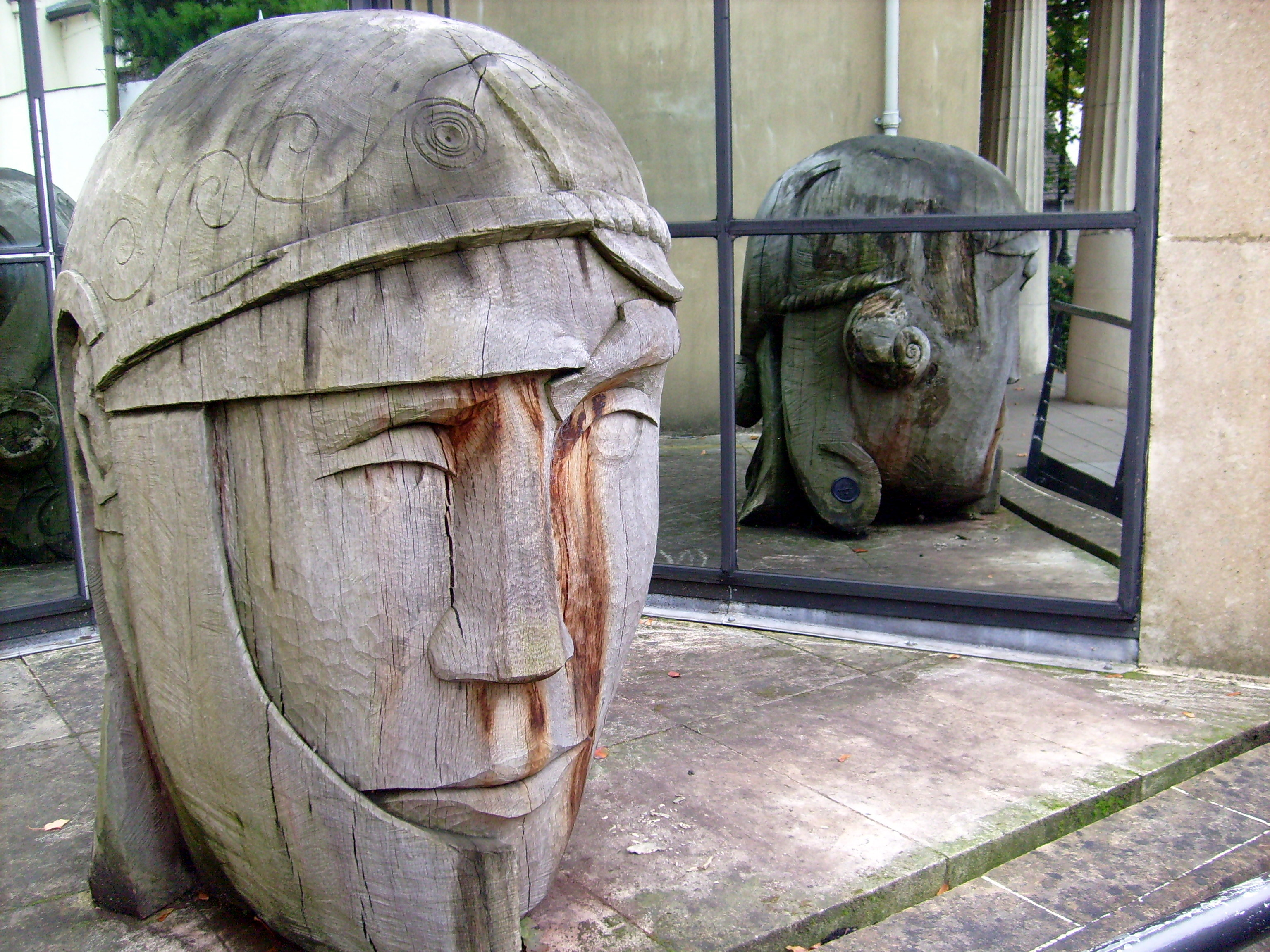 Wooden head of a Roman Centurion outside the museum at Caerleon